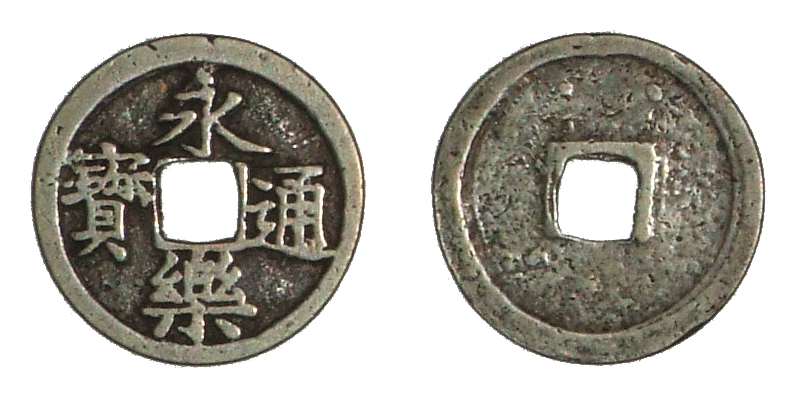 Eirakutsuho-gin